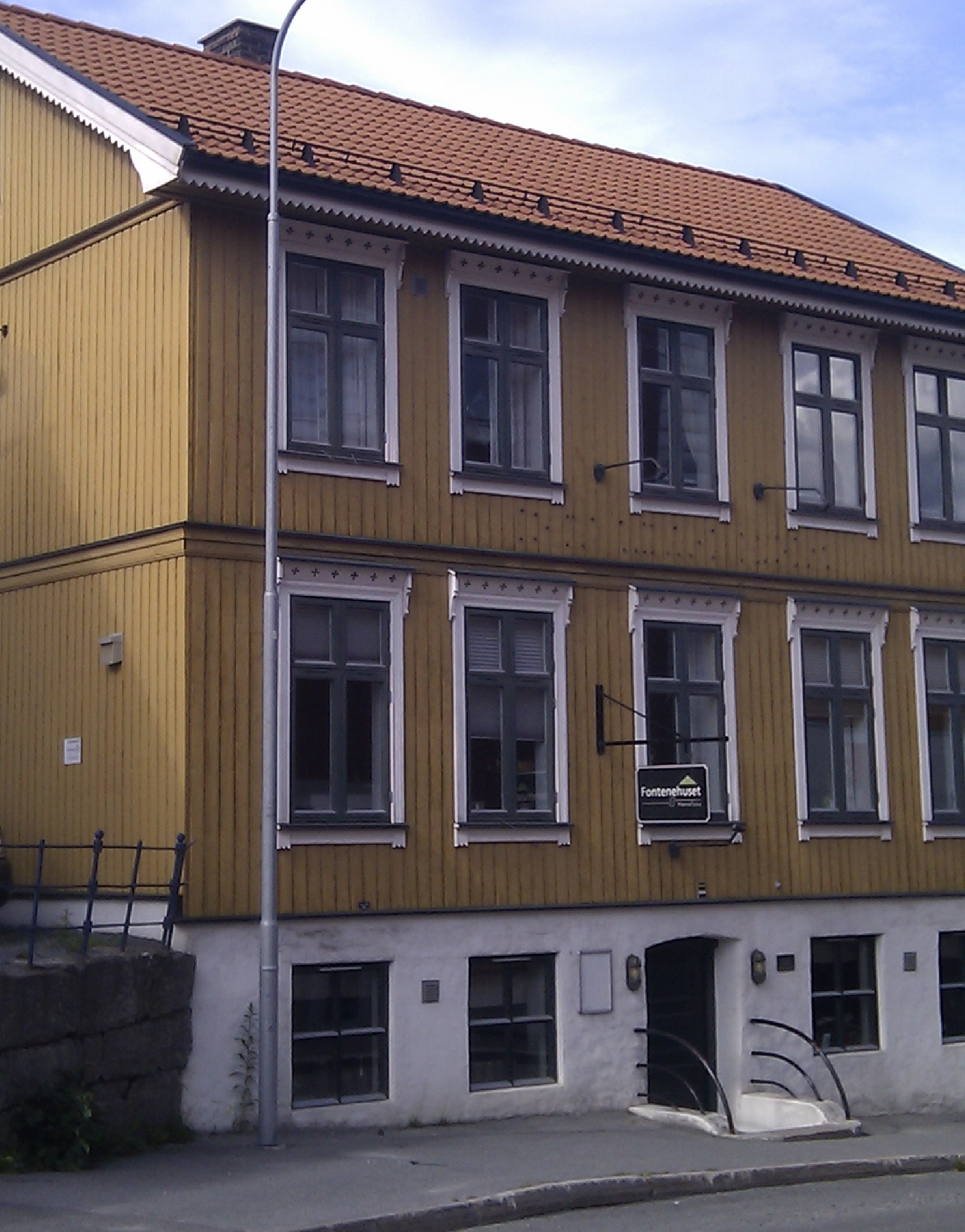 Fontenehuset (Fountain House) in Hønefoss, Buskerud, Norway.